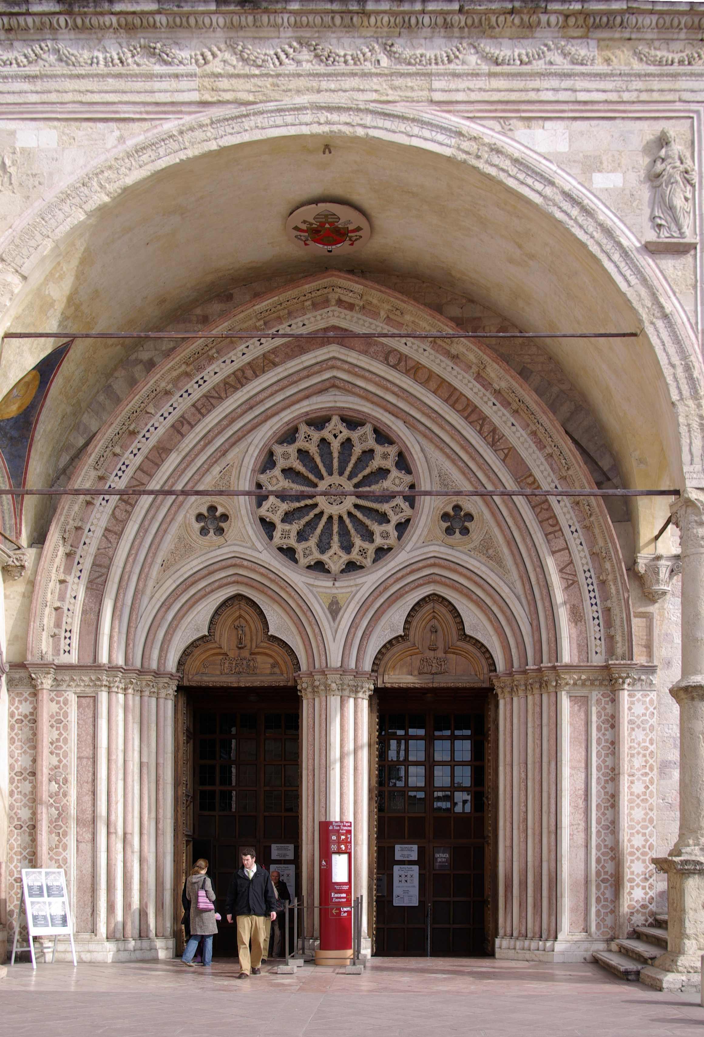 Assisi,Basilica di San Francesco, Portal of the lower church